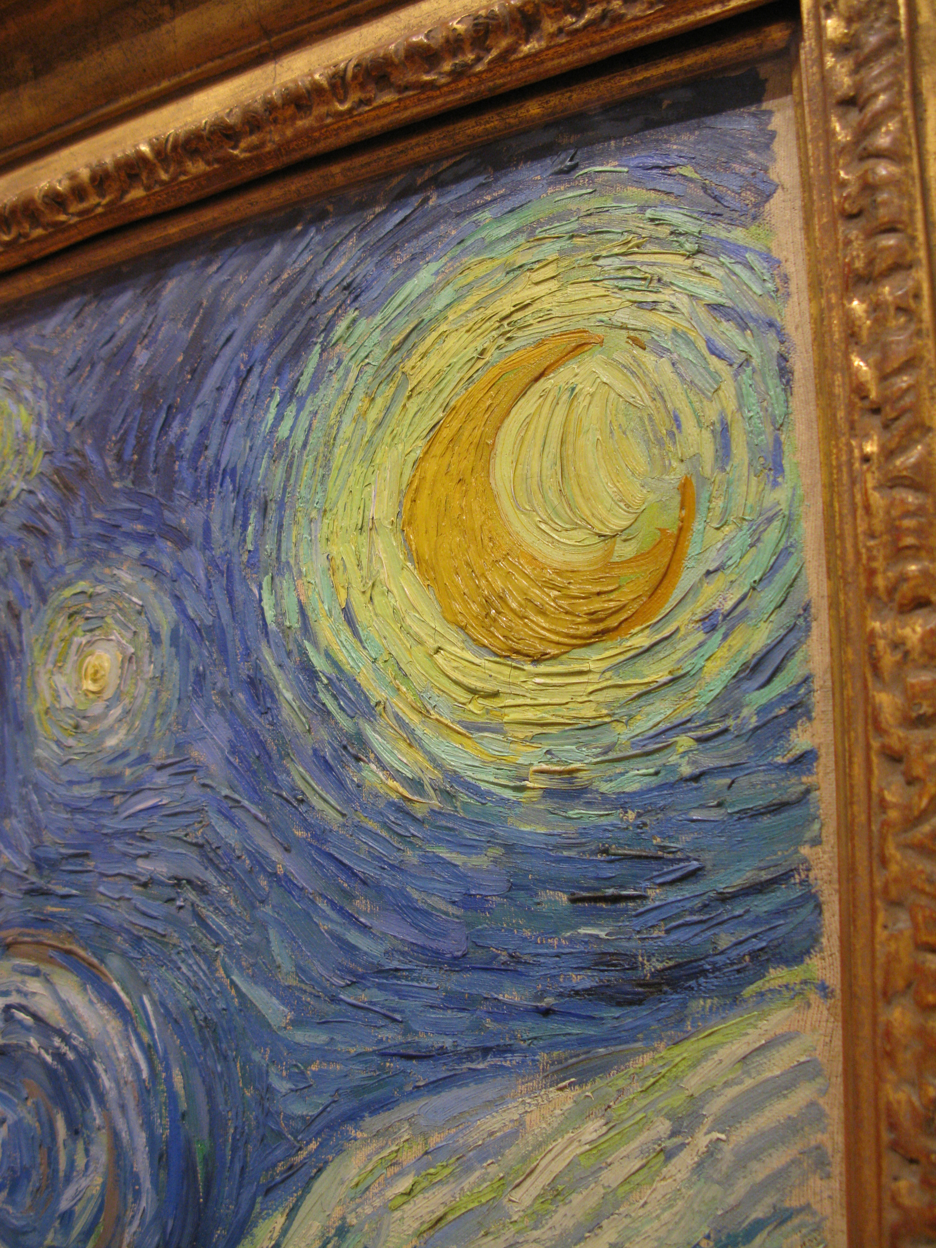 Close up of upper right corner of Van Gogh's The Starry Night.